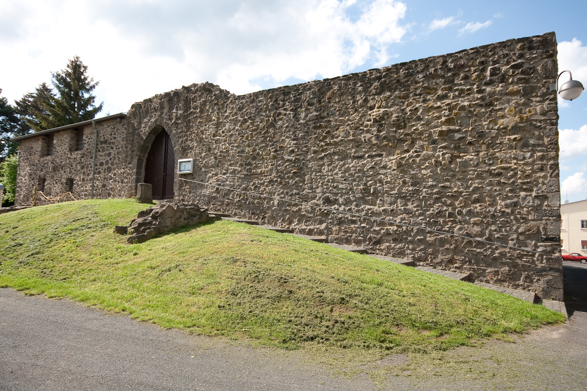 Castle Grüningen